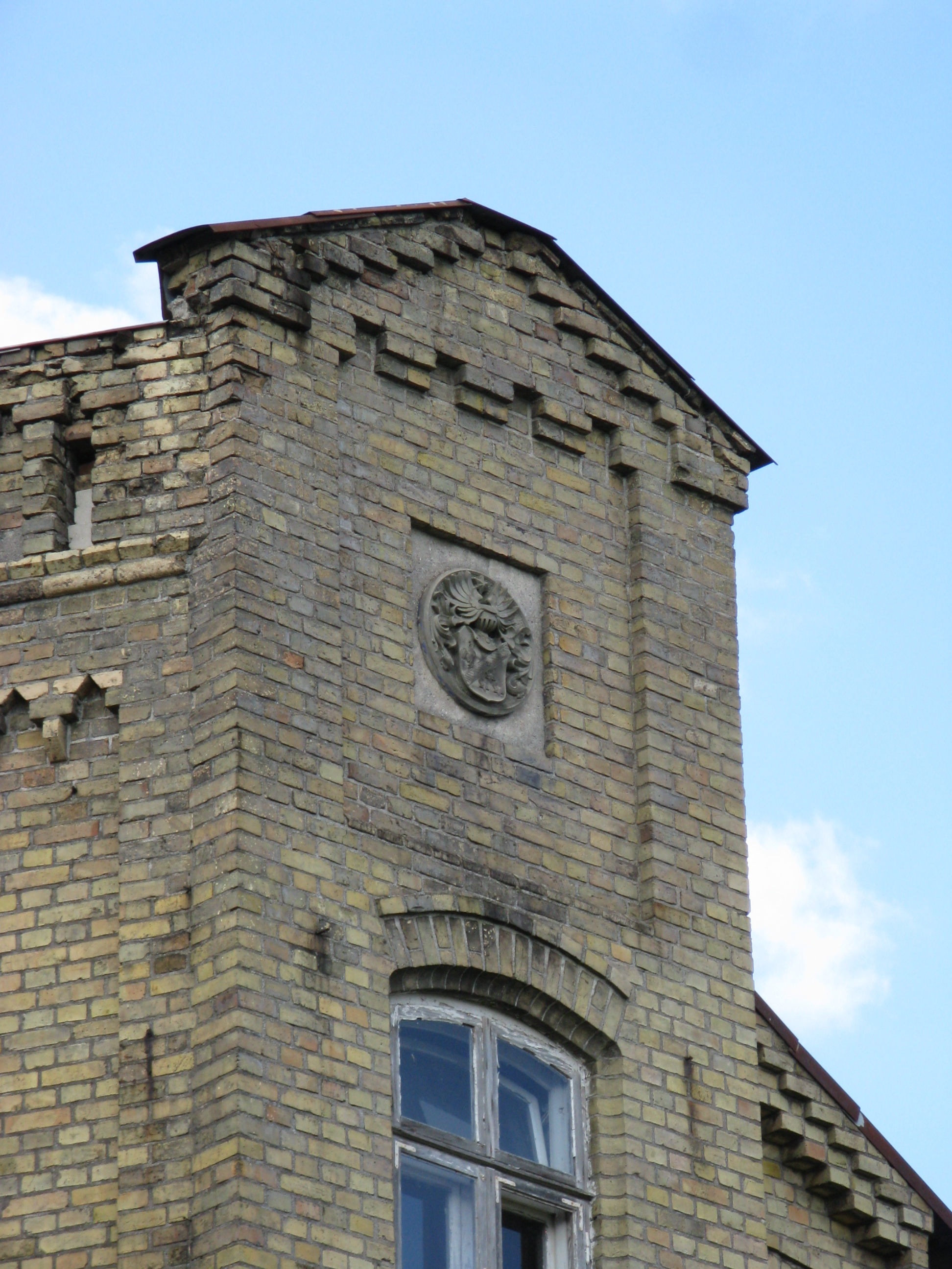 Coat of arms of Hüniken family at the manor house in Weitendorf, district Parchim, Mecklenburg-Vorpommern, Germany